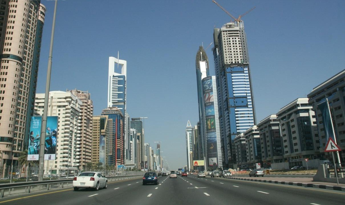 This is a photo showing Sheikh Zayed Road in Dubai, United Arab Emirates on 31 January 2007.